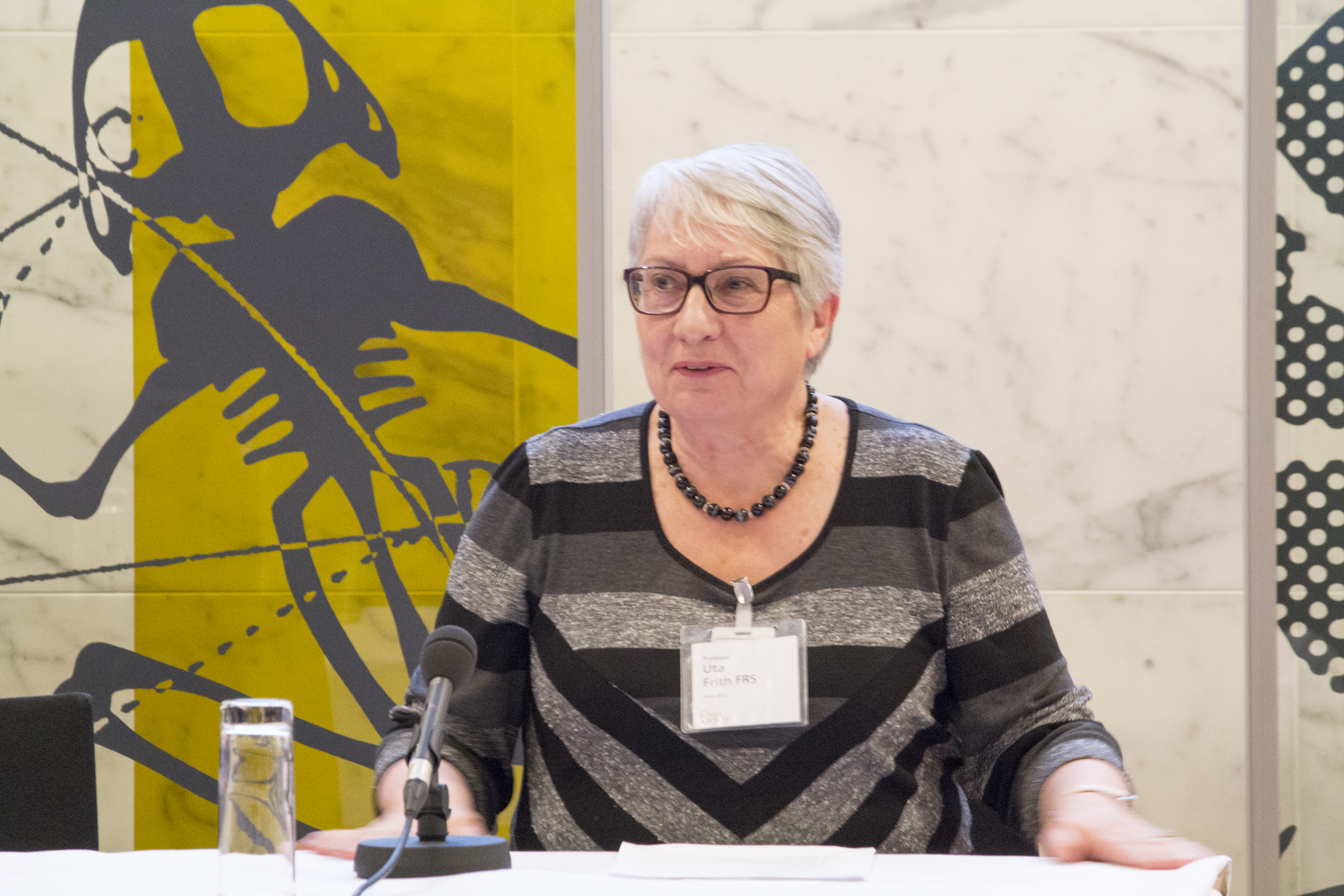 Royal Society Women in Science panel discussion.